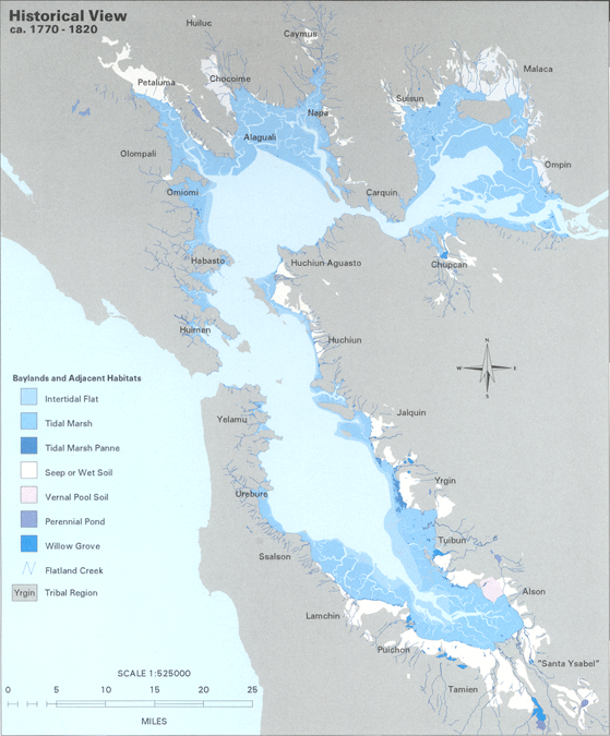 San Francisco Estuary Institute . Historical View